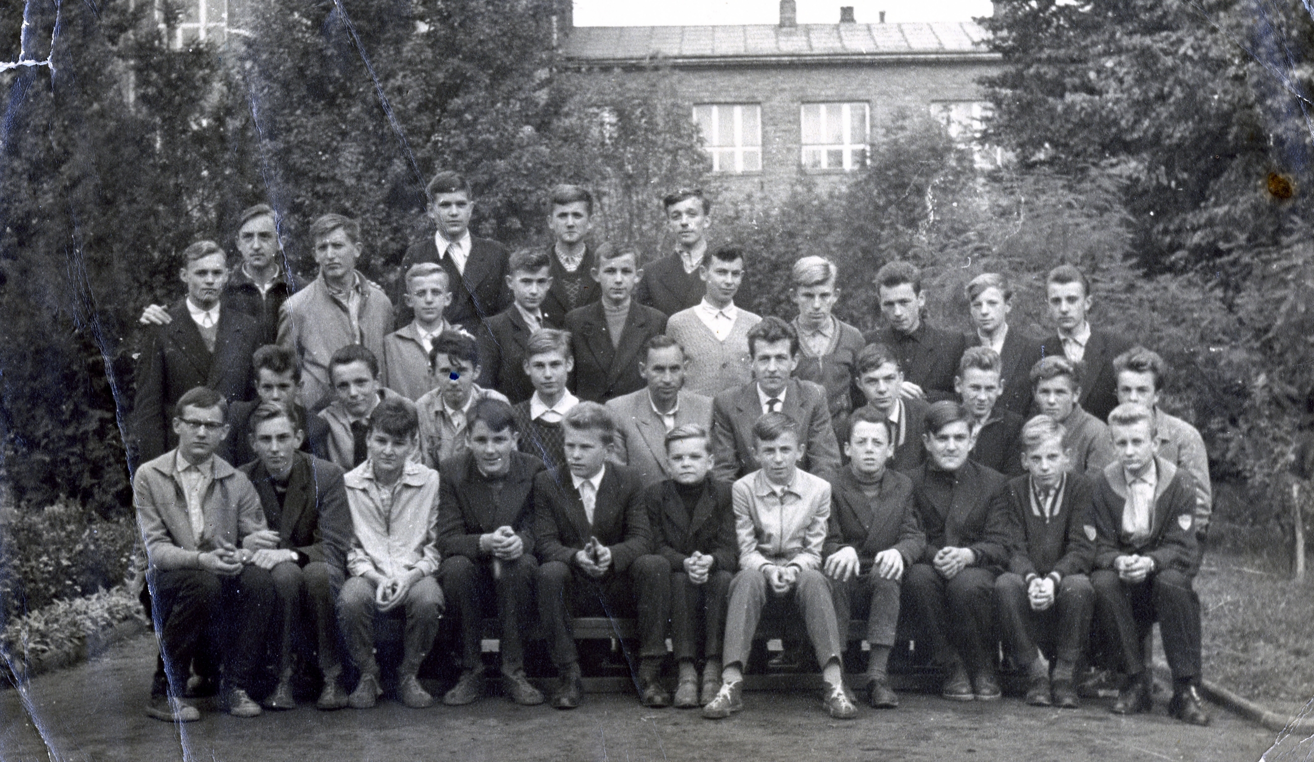 Radomsko - Secondary School I (at that time Warynski street), class IX E - 1960